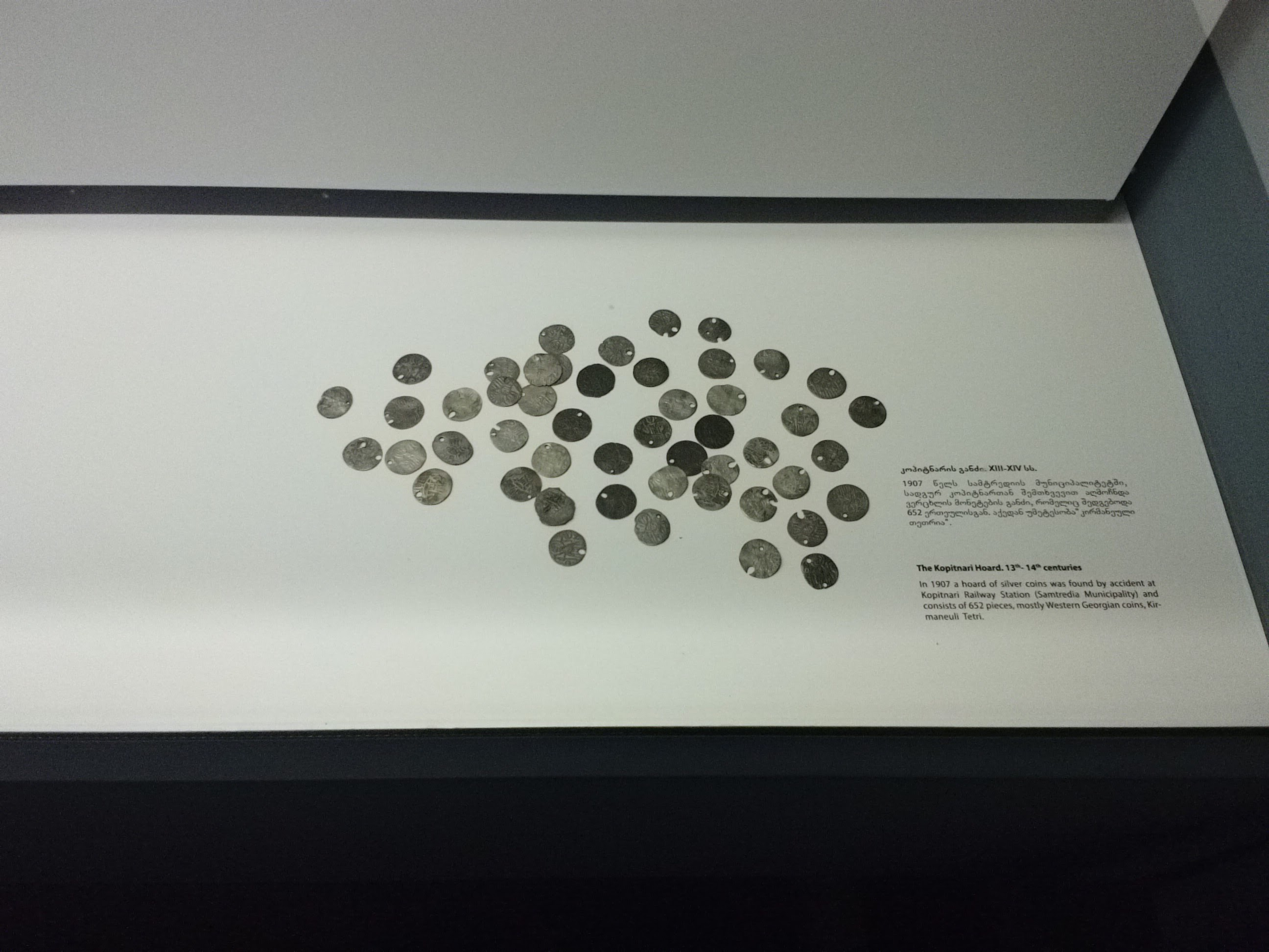 The Kopitnari Hoard